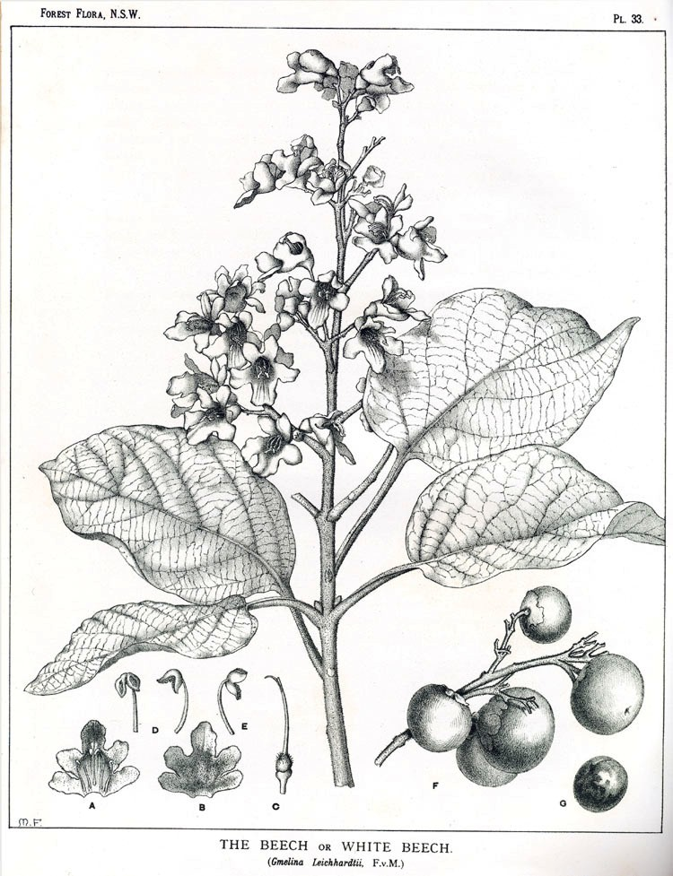 Beech or White Beech, Gmelina leichhardtii (F.Muell.) Benth., Plate 33 from Forest Flora of New South Wales by by Joseph Henry Maiden (1859–1925)